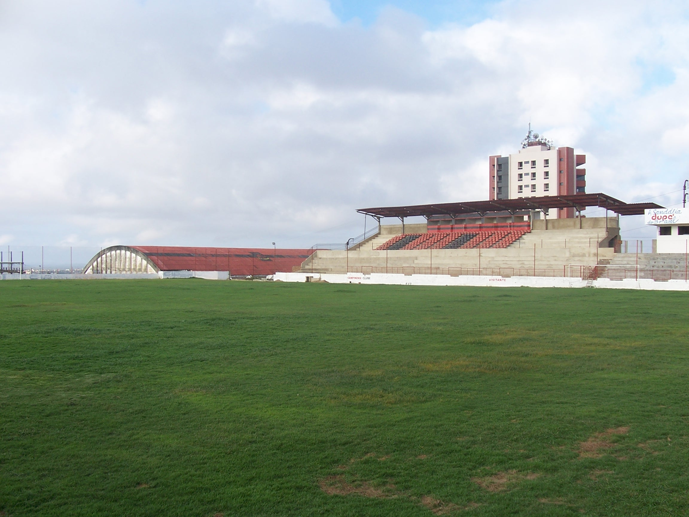 Field